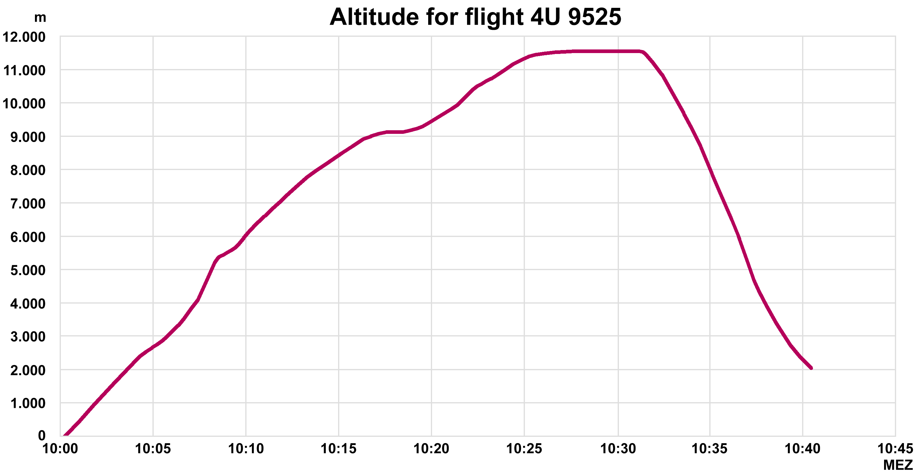 Altitude chart for Germanwings Flight 9525 (crashed), register D-AIPX (English)